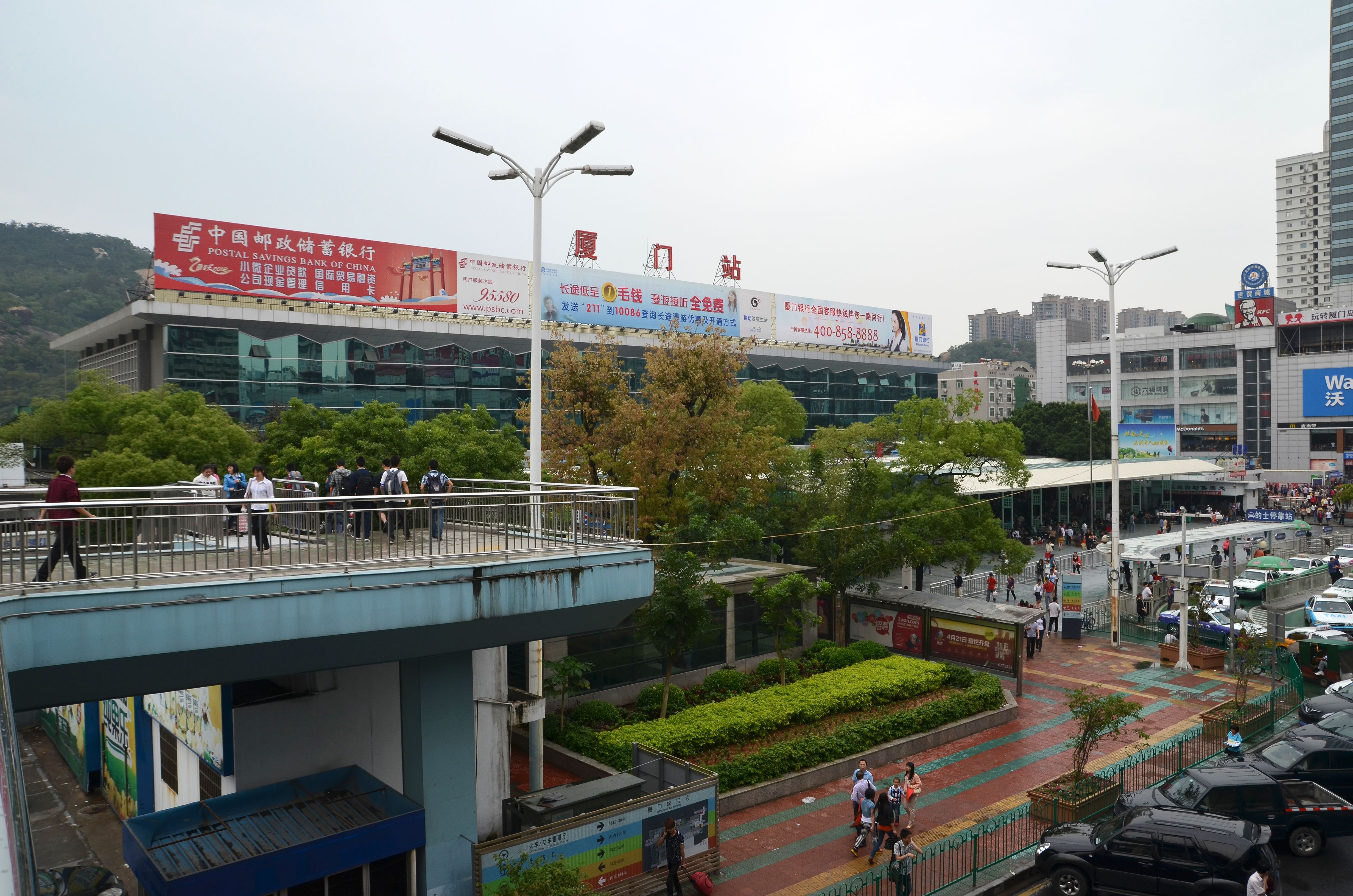 Xiamen Railway Station, Fujian province, China in 2012